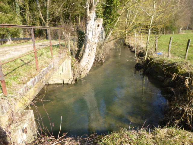 Courtenay, Loiret, Centre region, France. The Cléry river at Liffert hamlet. Looking upstream.